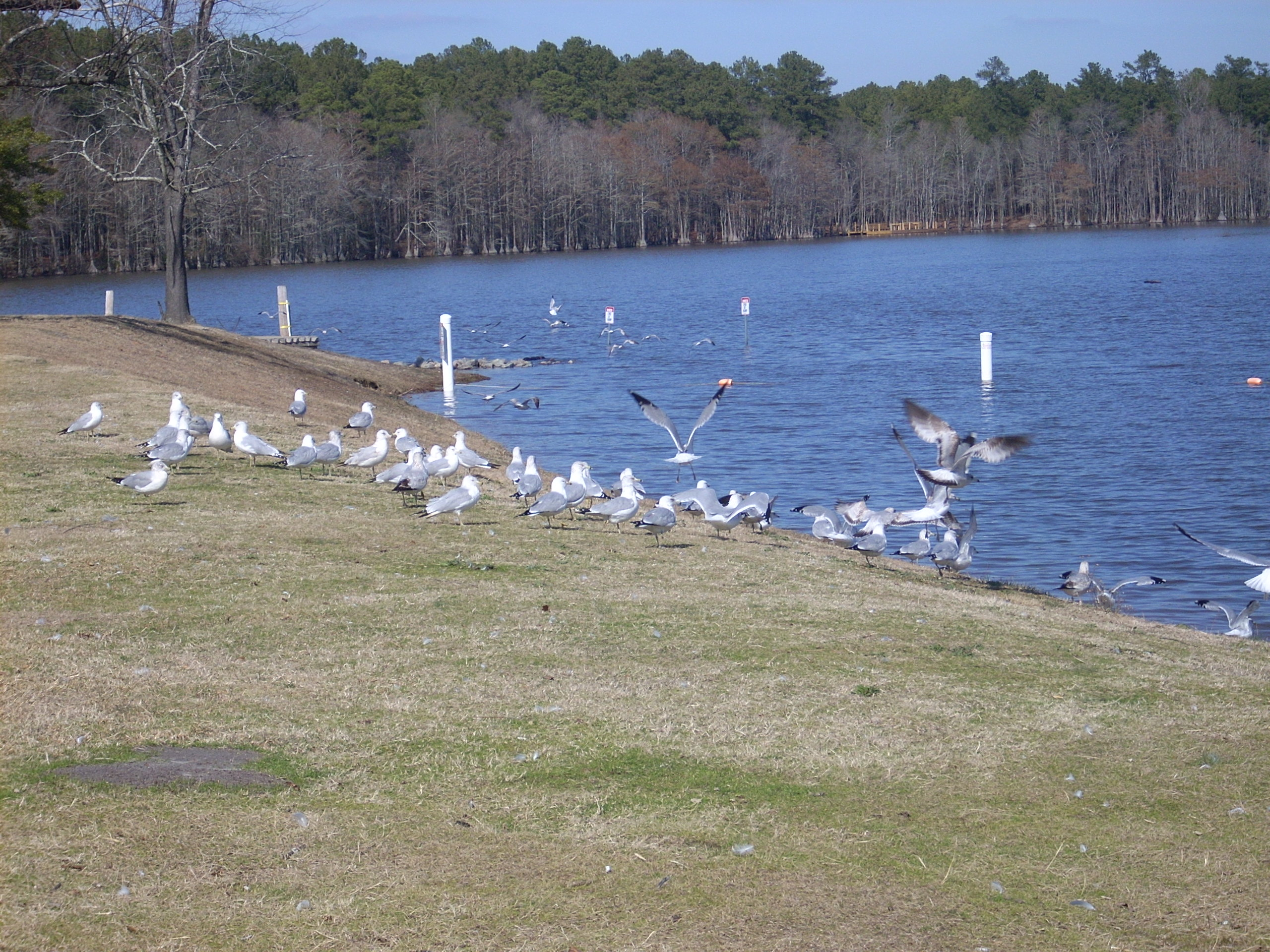 Hope Mills Lake in February 2010